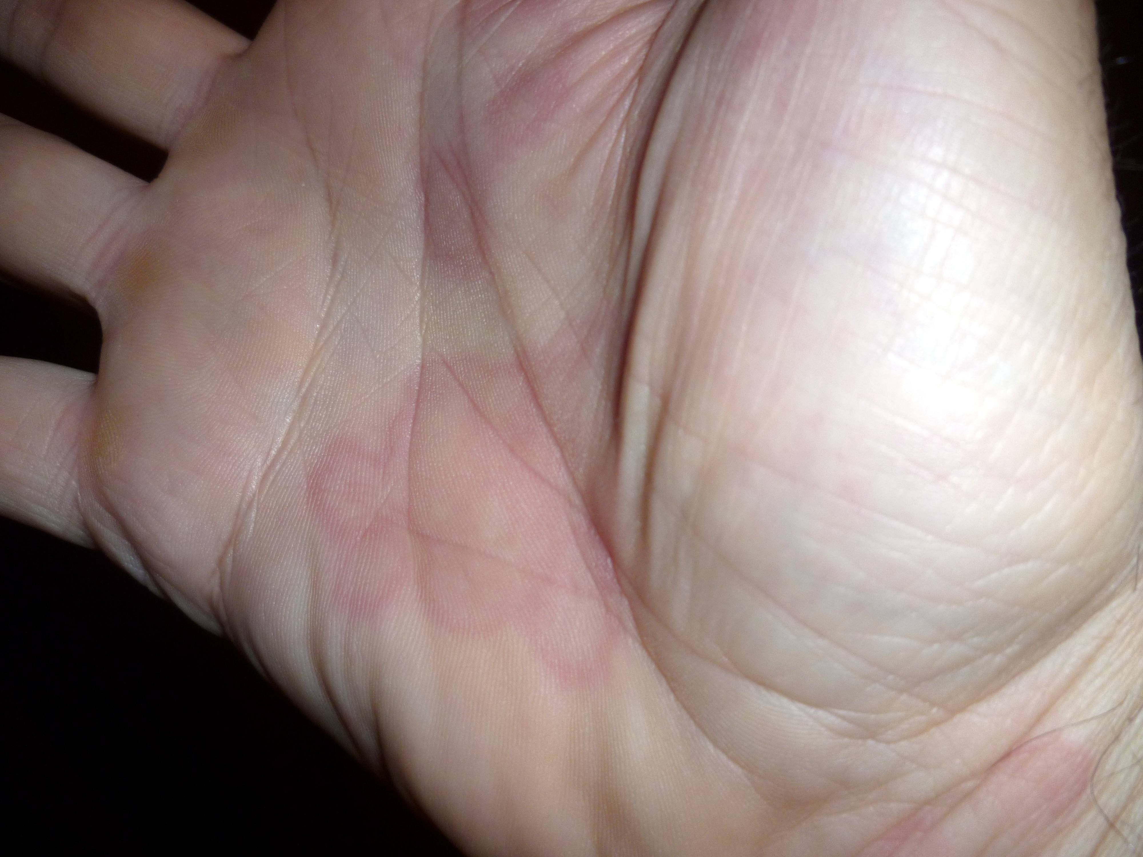 Annular urticaria in 60-year-old man. The itchy skin lesion arose and disappeared within 12 hours. The trigger is unknown.